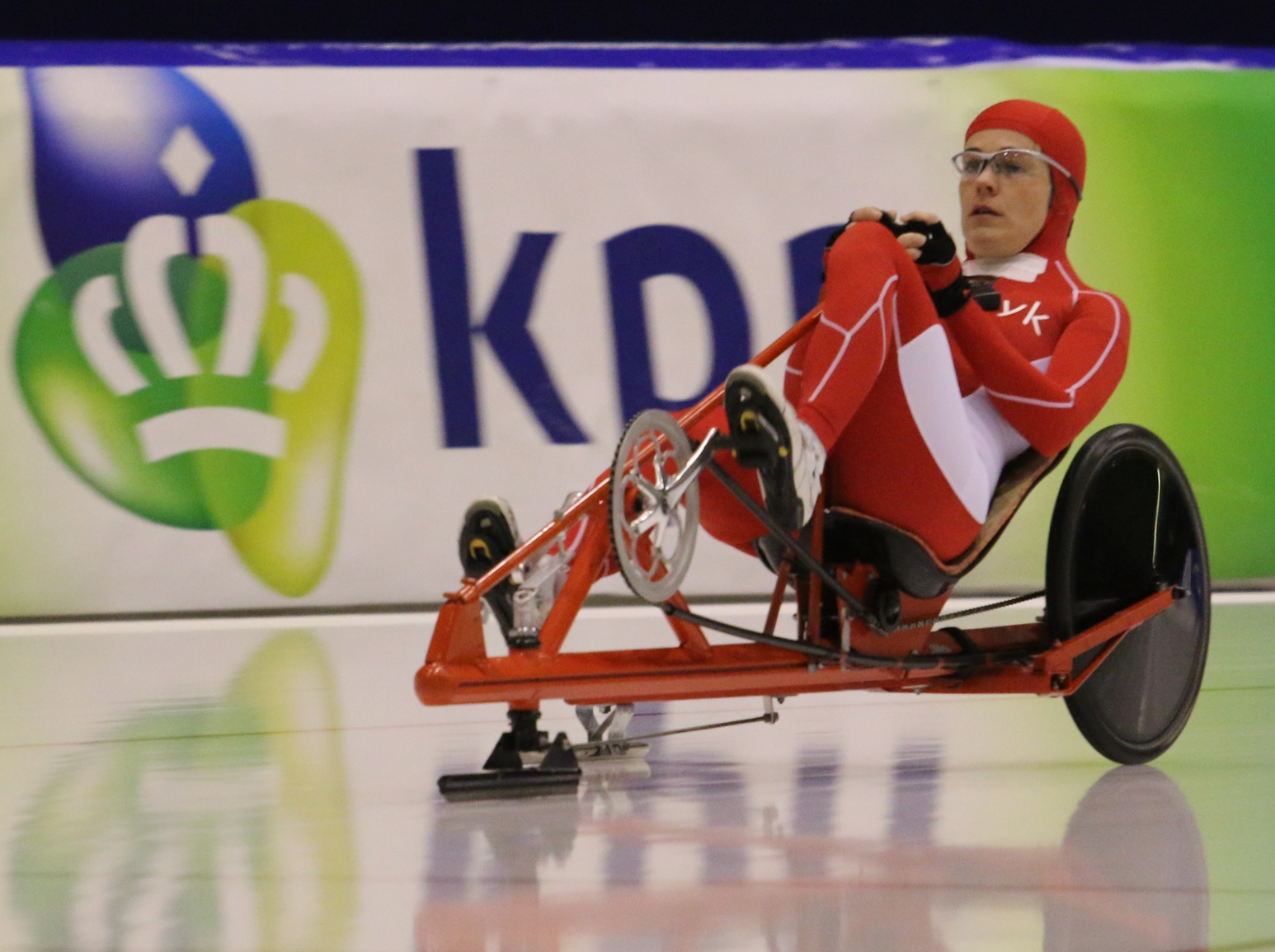 Eva Navratilova during Ice Track Hour Record in Thialf